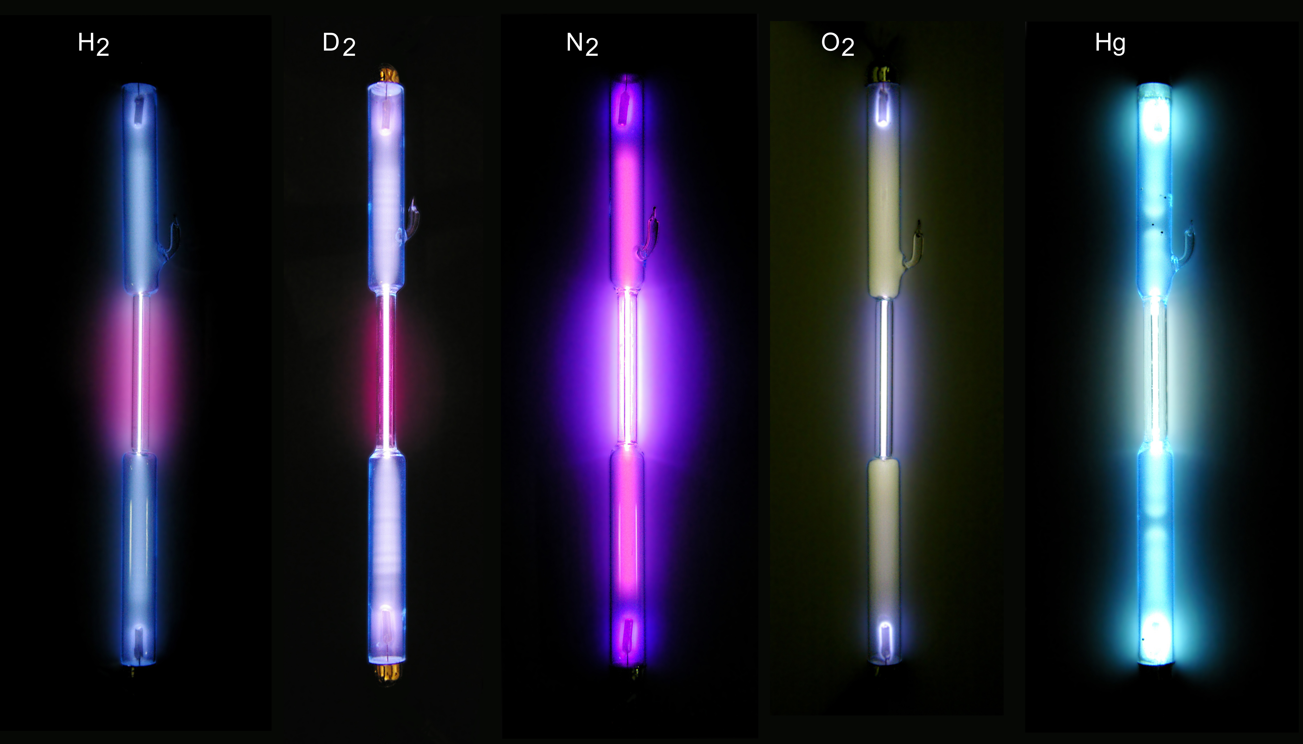 Spectrum = gas discharge tubes. The gases: hydrogen H2, deuterium D2, nitrogen N2, oxygen O2, mercury Hg. Used with 1,8kV, 18mA, 35kHz. ≈8" length.